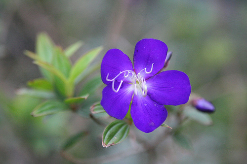 Straits rhododendron